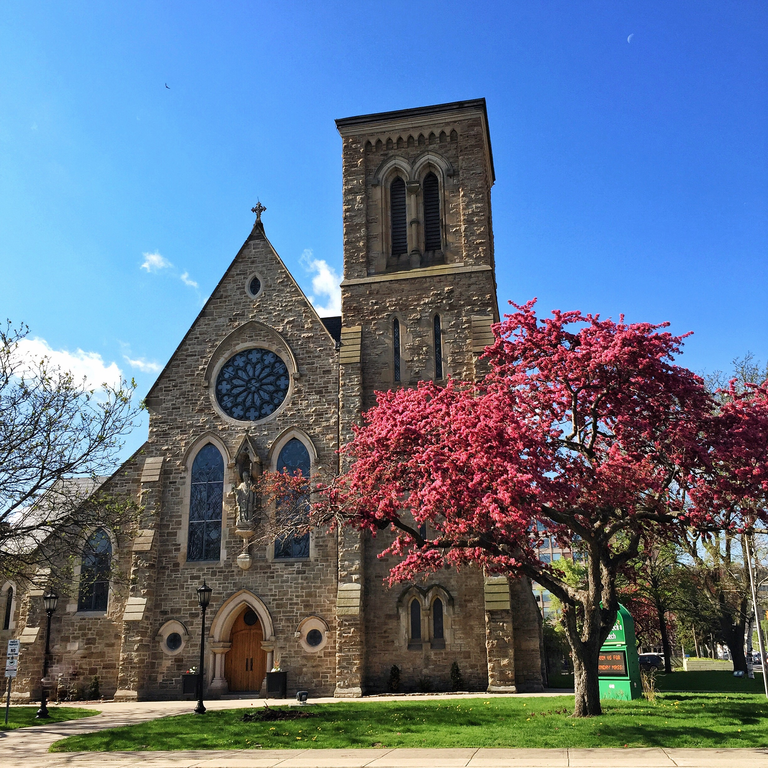 hamilton1